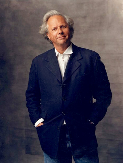 Graydon Carter, editor of Vanity Fair, co-founder of Spy magazine